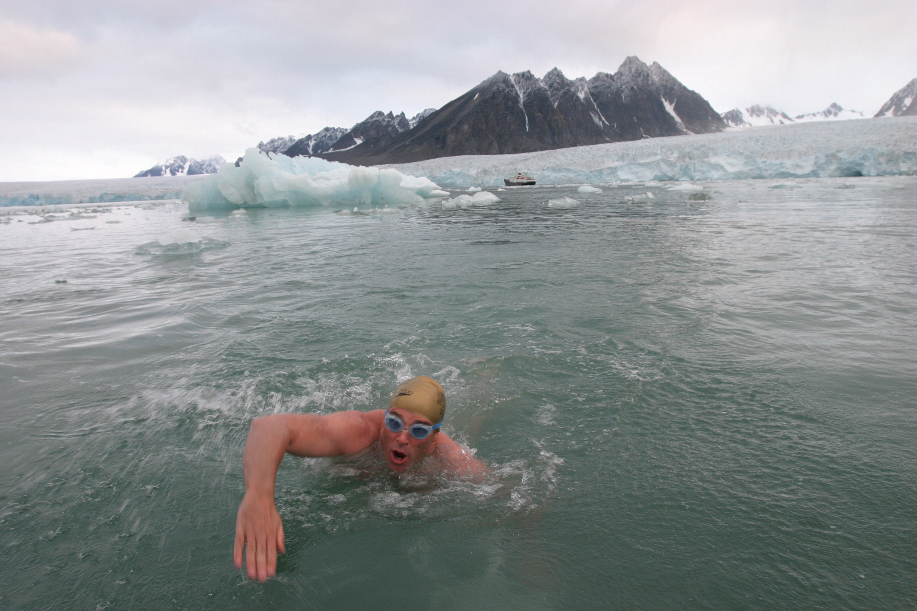 Lewis Pugh swims across the foreground of the Monaco Glacier